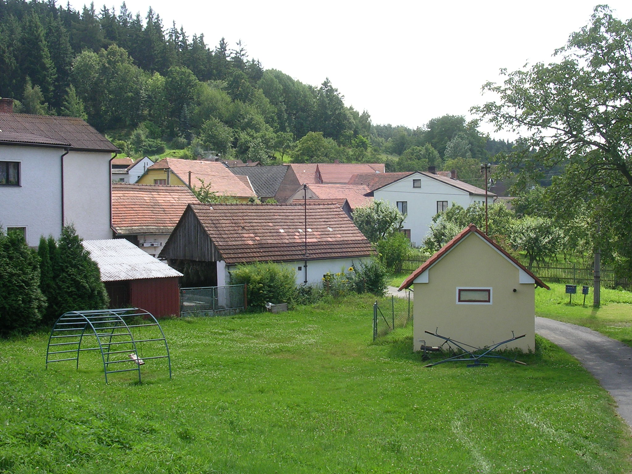 Vysoký Chlumec-Hrabří, Příbram District, Central Bohemian Region, the Czech Republic.